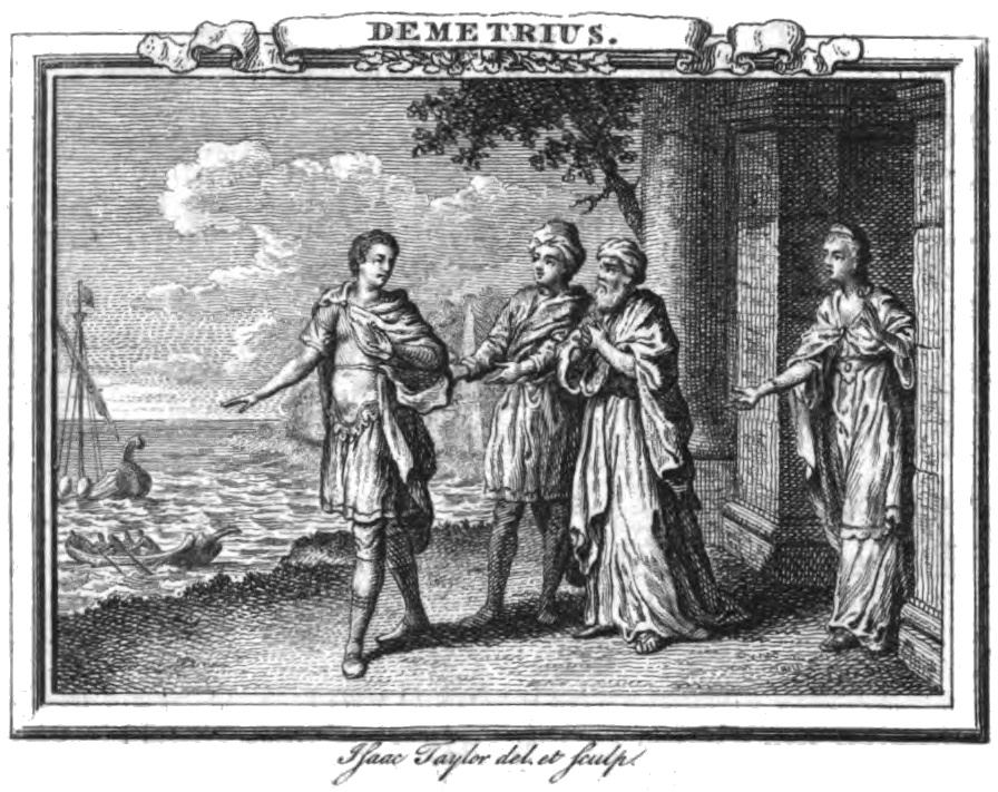 Metastasio - Demetrius - Hoole Vol.2 - London 1767